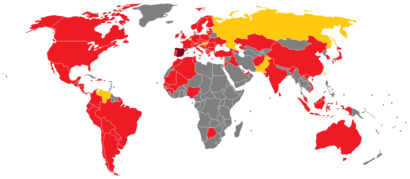 This map shows which countries in the world recognized the Catalonia's declaration of independence. Catalonia Country which officially recognized Catalonia's declaration of independence Non-recognized country (full) or limited autonomous community from a recognized country (strips) which supported Catalonia's declaration of independence Country which didn't officially recognize or not Catalonia's declaration of independence and called for mutual dialogue Country which officially refused to recognize Catalonia's declaration of independence Spain